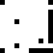 Excample of EZcode target pathern